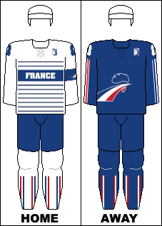 The home and away jerseys of the French national ice hockey team used from the 2014 IIHF World Championship.